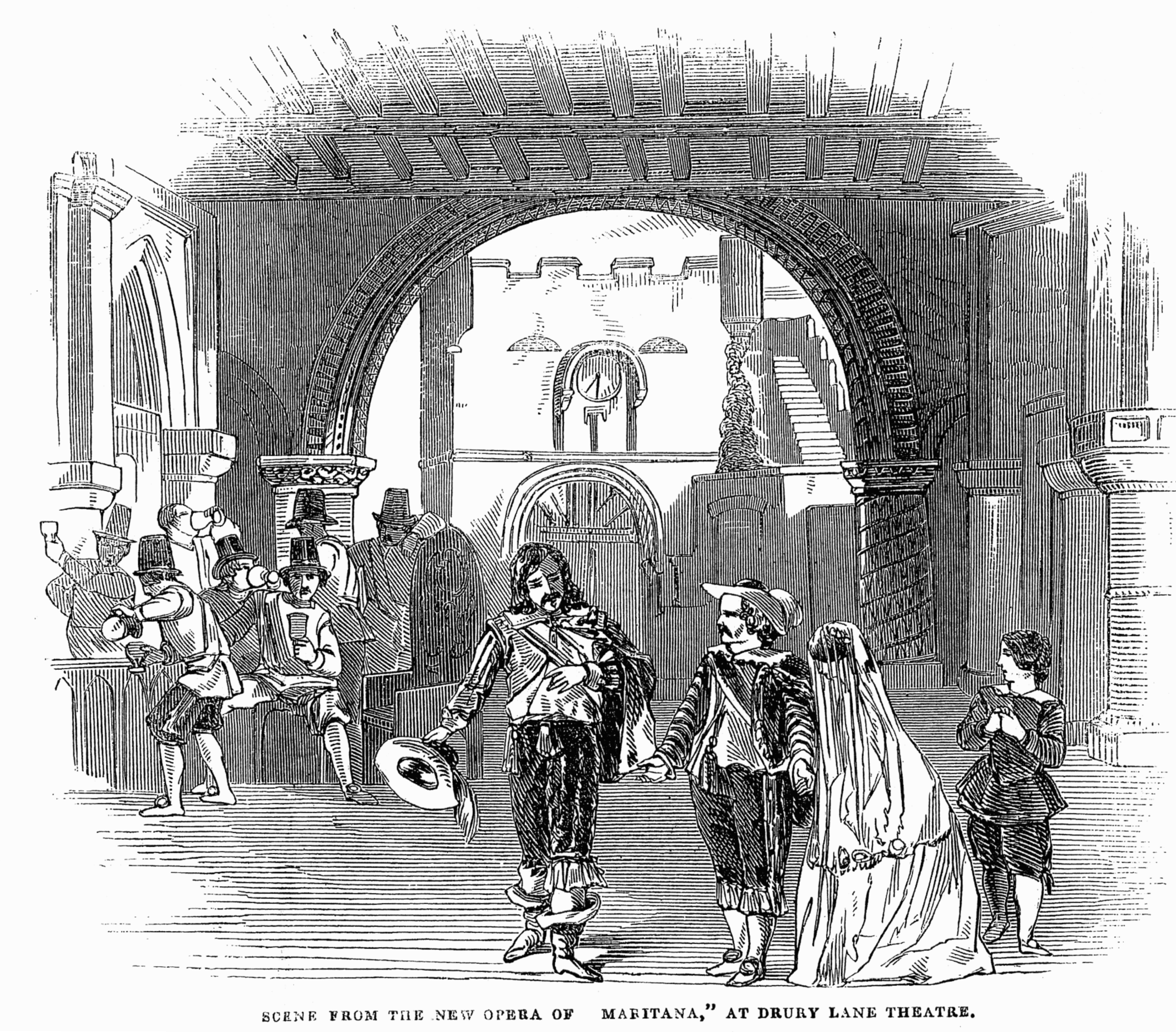 The wedding of Don Cæsar and Maritana, from William Vincent Wallace's Maritana. Original caption: 'Scene from the New Opera of "Maritana," at Drury Lane Theatre'